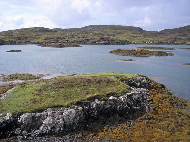 A view into the natural harbour from Gighay/Gioghaigh